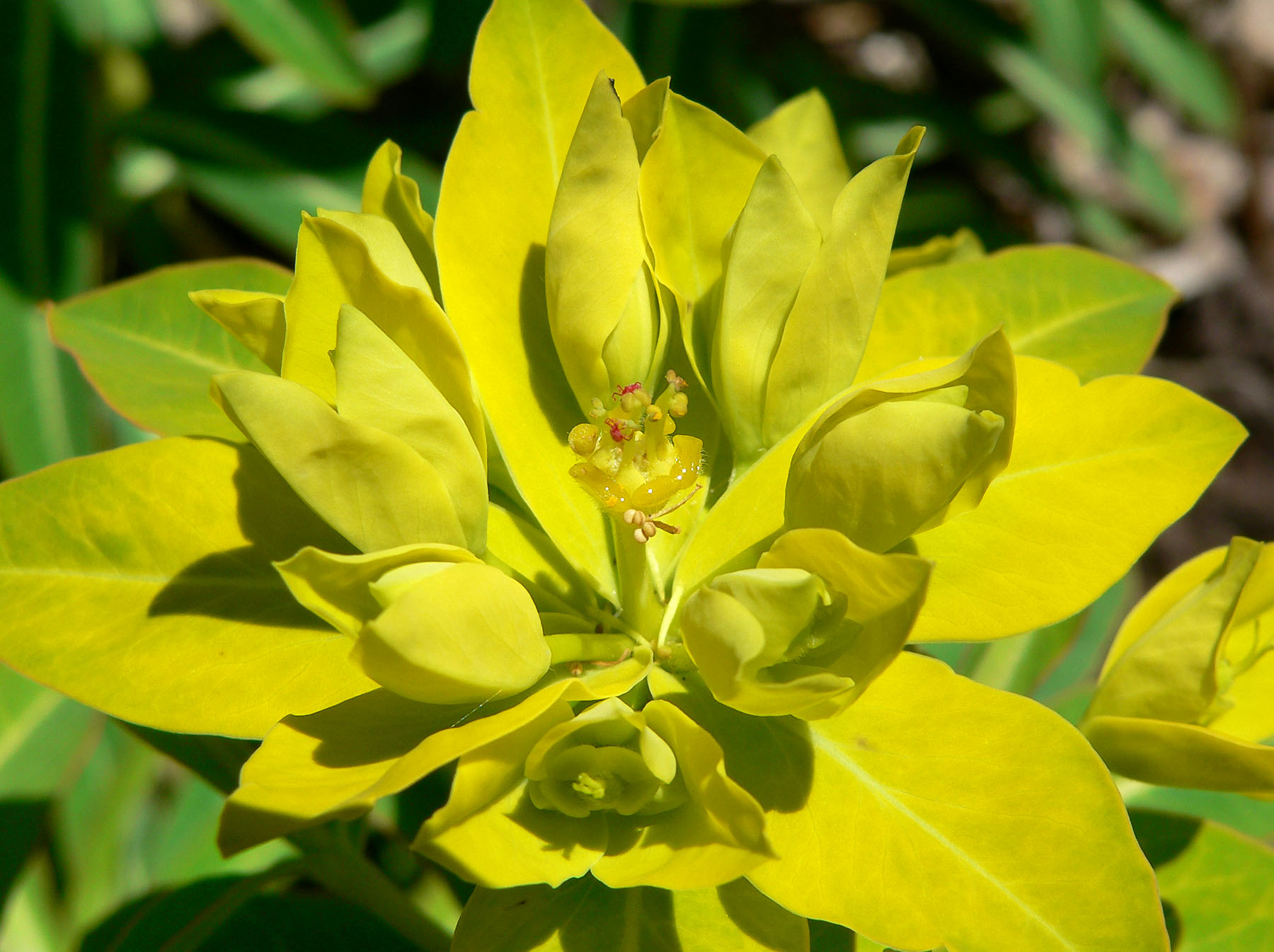 Euphorbia jacquemontii at the University of California Botanical Garden, Berkeley, California